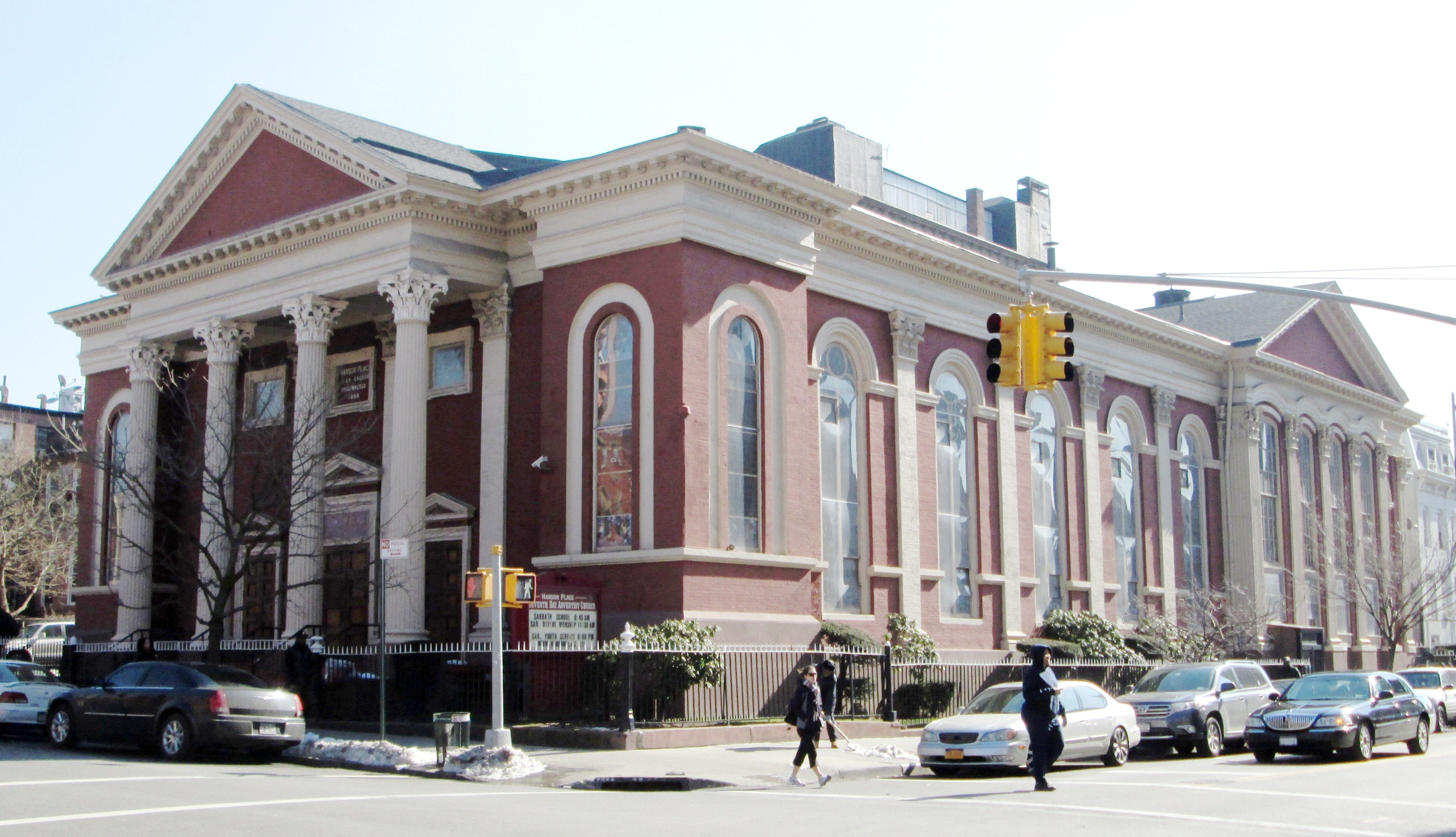 The church at 88 Hanson Place between South Oxford Street and South Portland Avenue in the Fort Greene neighborhood of Brooklyn, New York Cit was built in 1857-60 as the Hanson Place Baptist Church. It was designed by George Penchard in the Early Romanesque Revival style with a portico featuring Corinthian columns. The building was restored, inside and out, in the 1970s. It is now the Hanson Place Seventh-day Adventist Church. (Sources: Guide to NYC Landmarks (4th ed.) and AIA Guide to NYC (5th ed.)